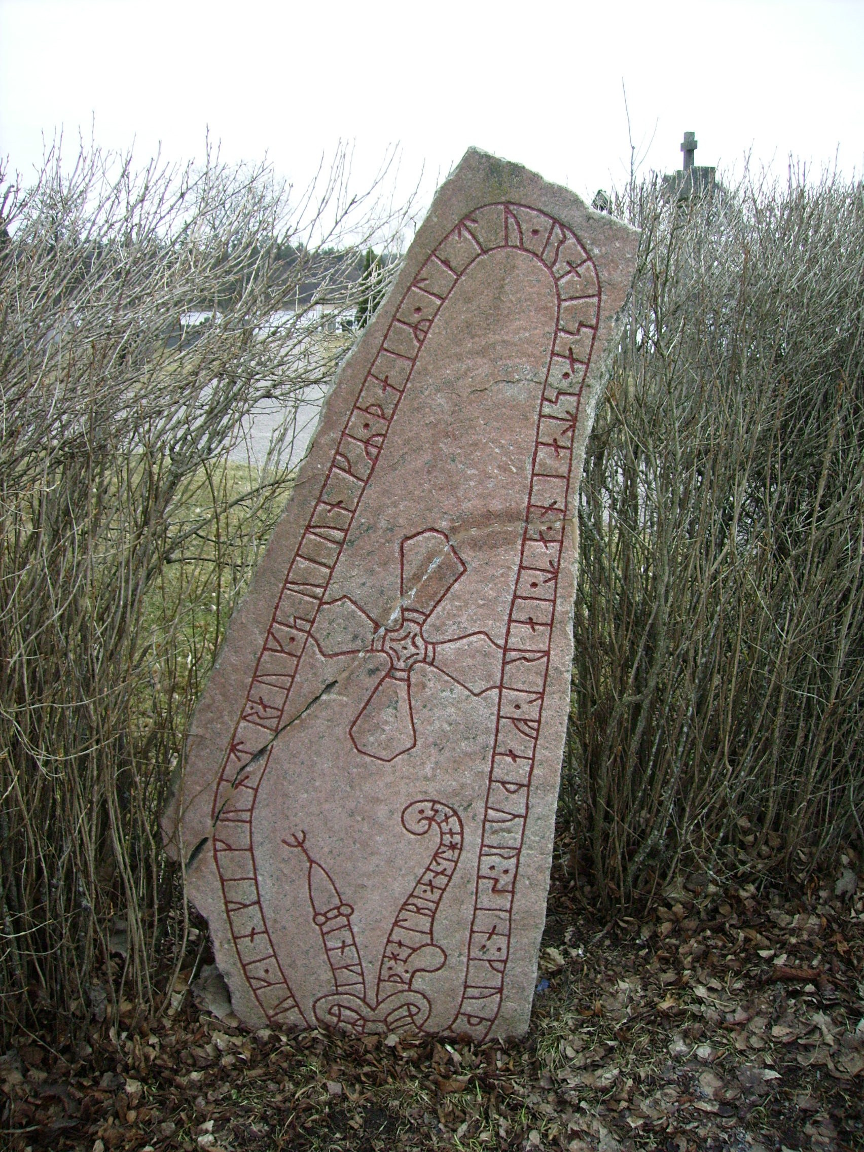 Runestone Sö 10 at Frustuna church, march 2009.